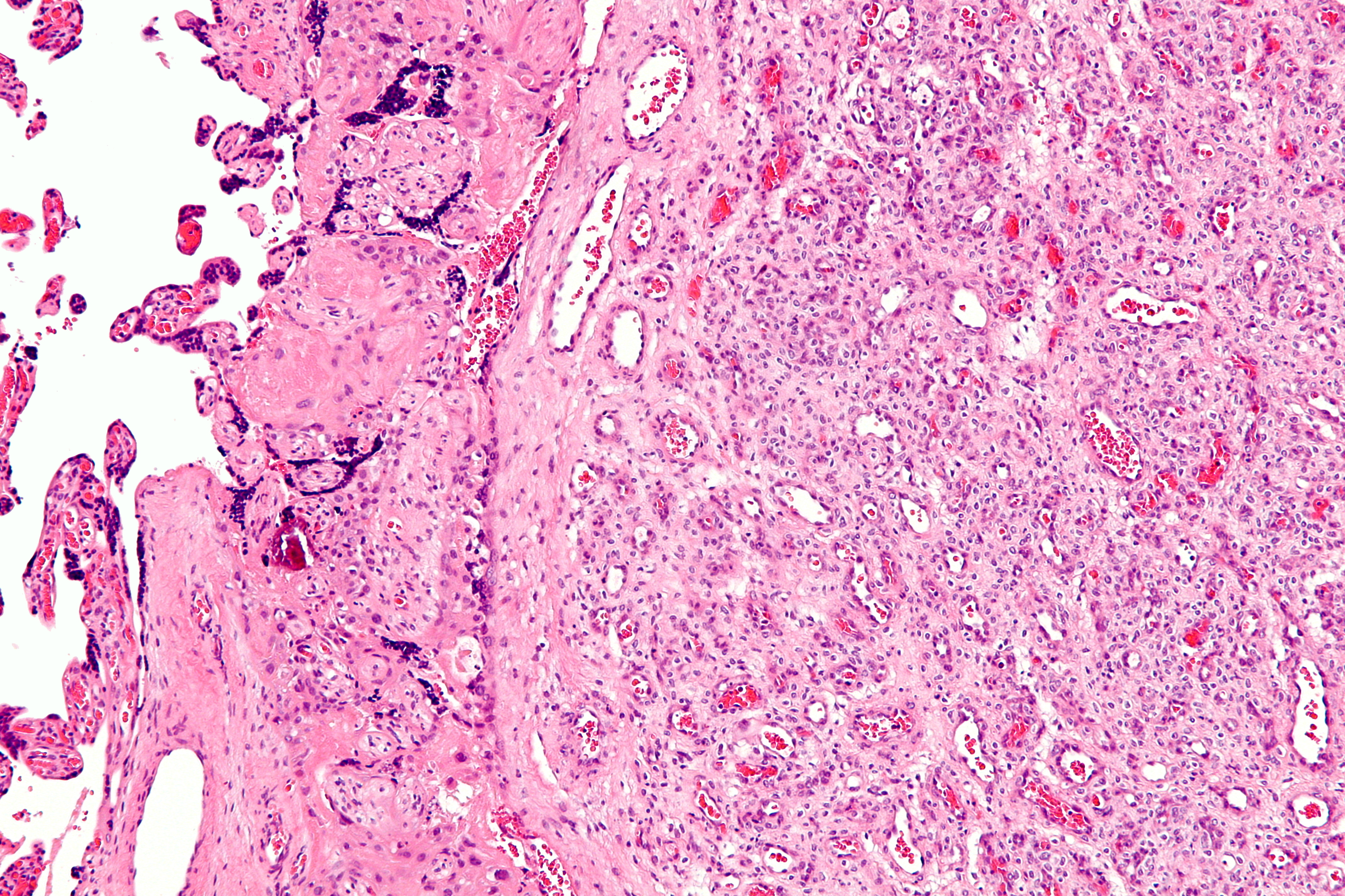 Intermediate magnification micrograph of a chorangioma of the placenta. H&E stain. Related images Low mag. High mag.